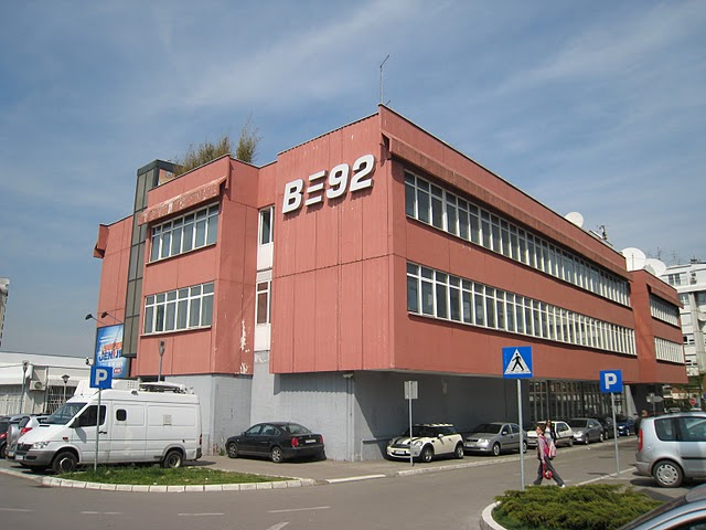 Radio station B92's main building in Belgrade, Serbia